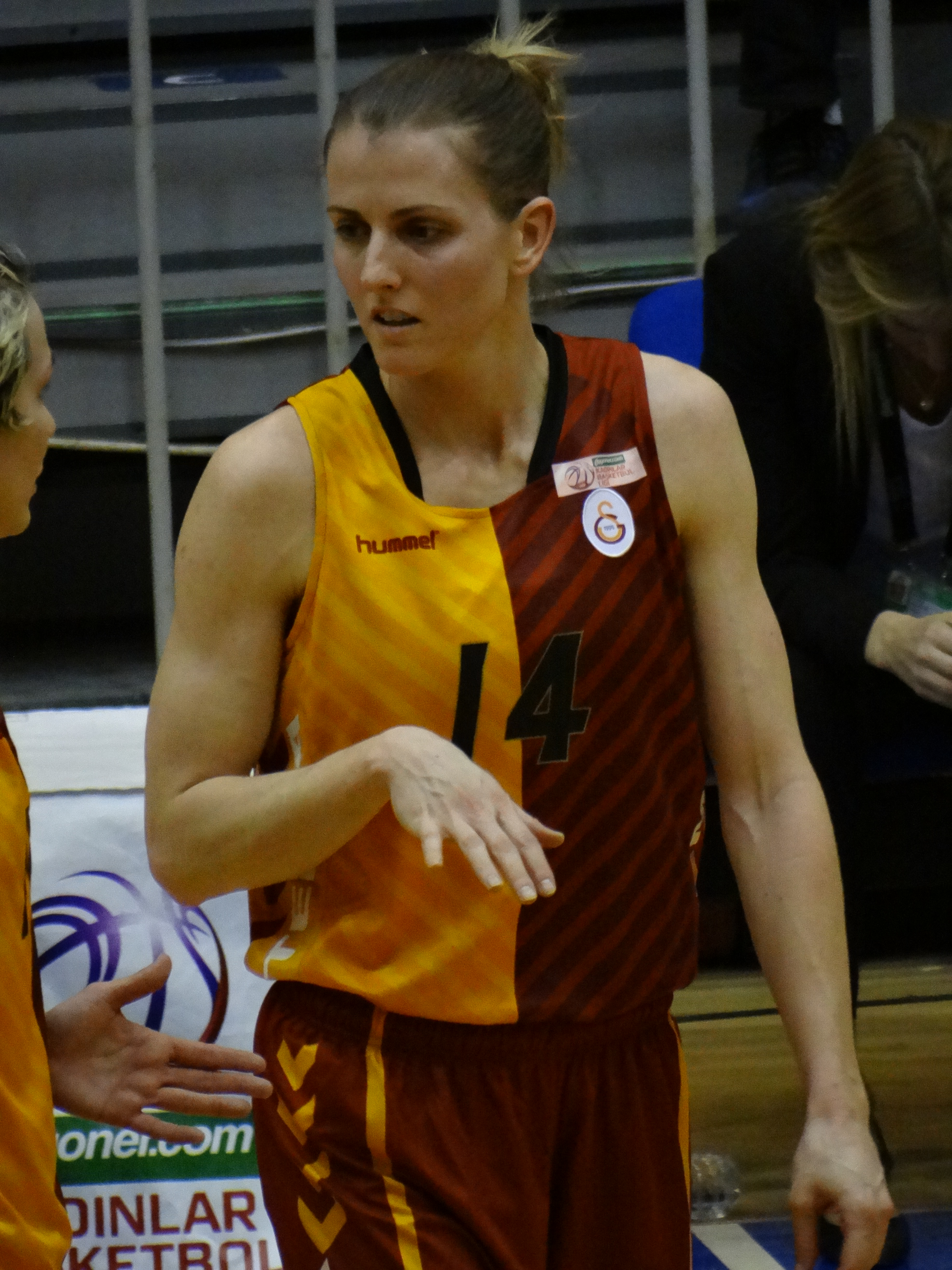 Allie Quigley Fenerbahçe Women's Basketball vs Galatasaray Women's Basketball TWBL 20180408